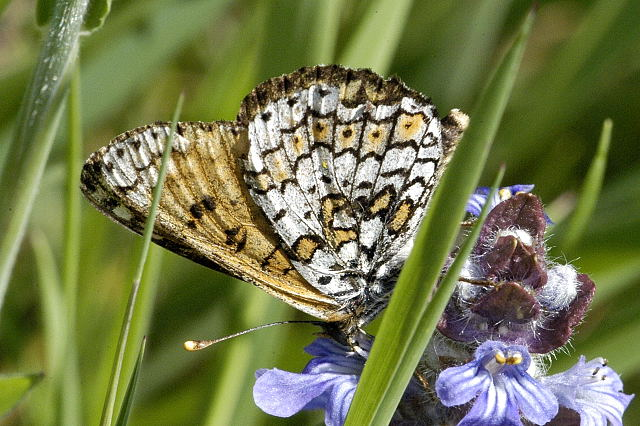 Picture taken in Commanster, Belgian High Ardennes . Species: Melitaea cinxia